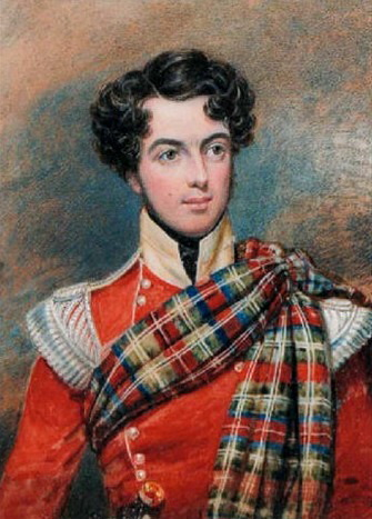 Portrait of Captain Thomas Henry Duthie (6 June 1806 - 13 October 1857) - Public domain (More than 100 years since artist died and published before 1923)